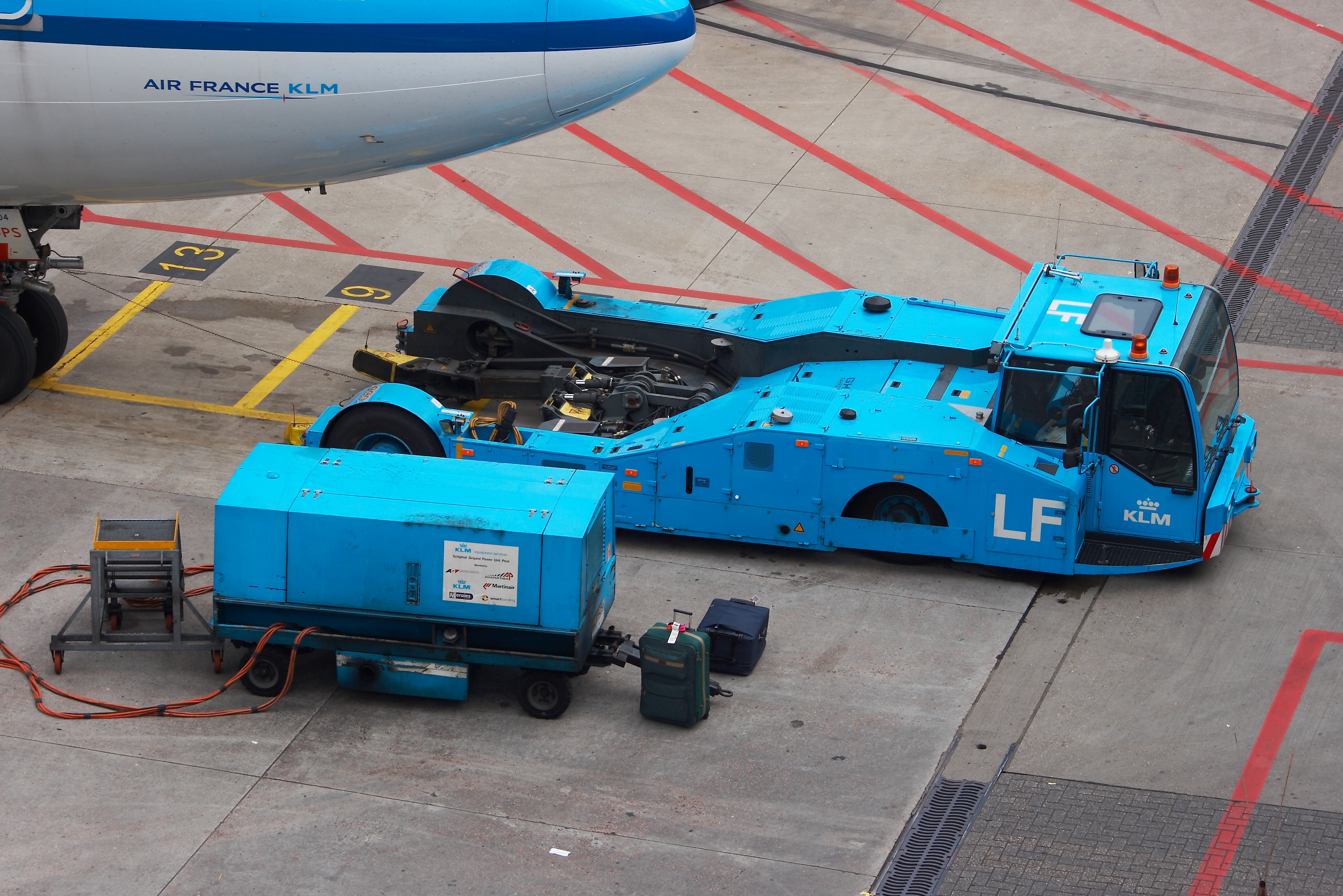 Pushback tractor and ground power unit at Amsterdam - Schiphol (AMS / EHAM) Airport.